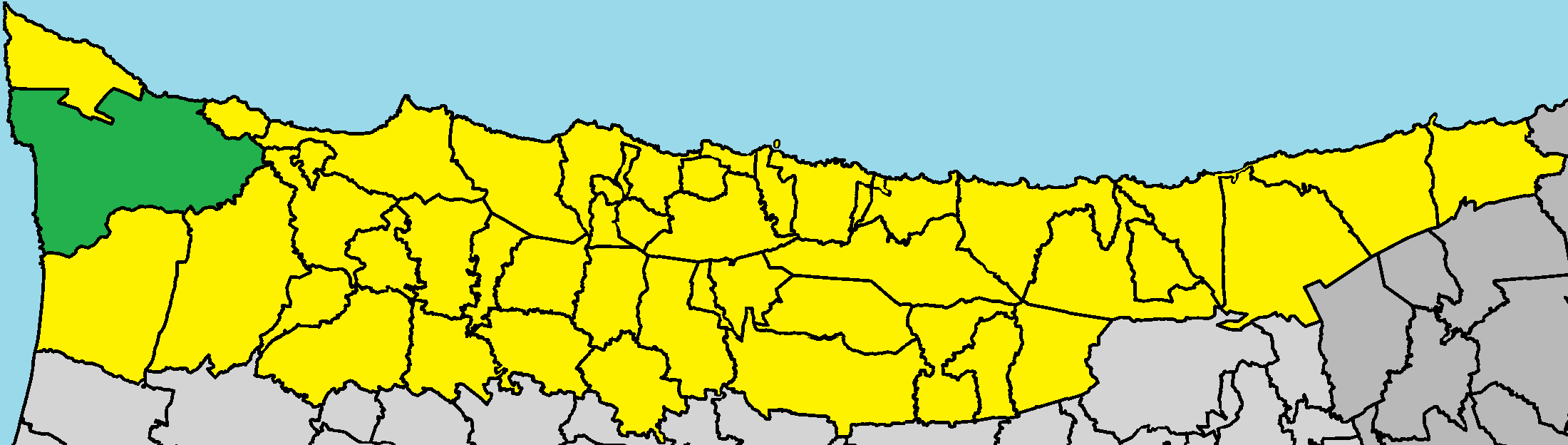 Kormakitis in Kyrenia District (de jure).